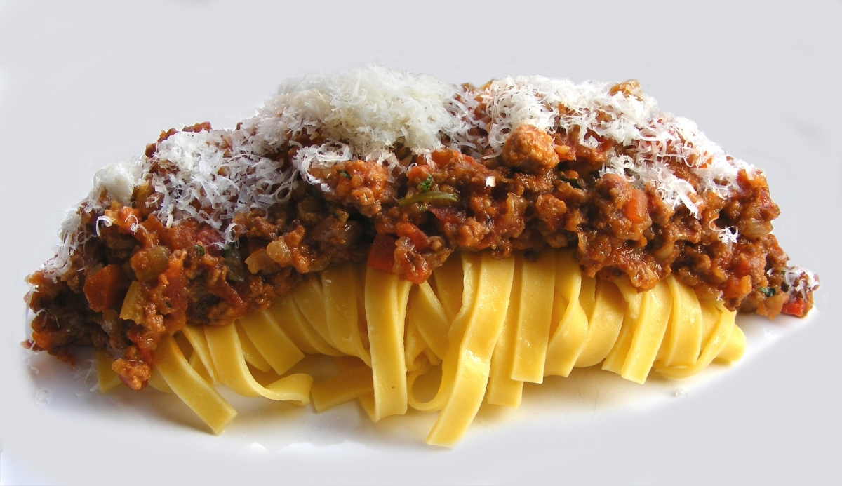 This is my creation of Heston Blumenthal's Perfect Spaghetti Bolognese.